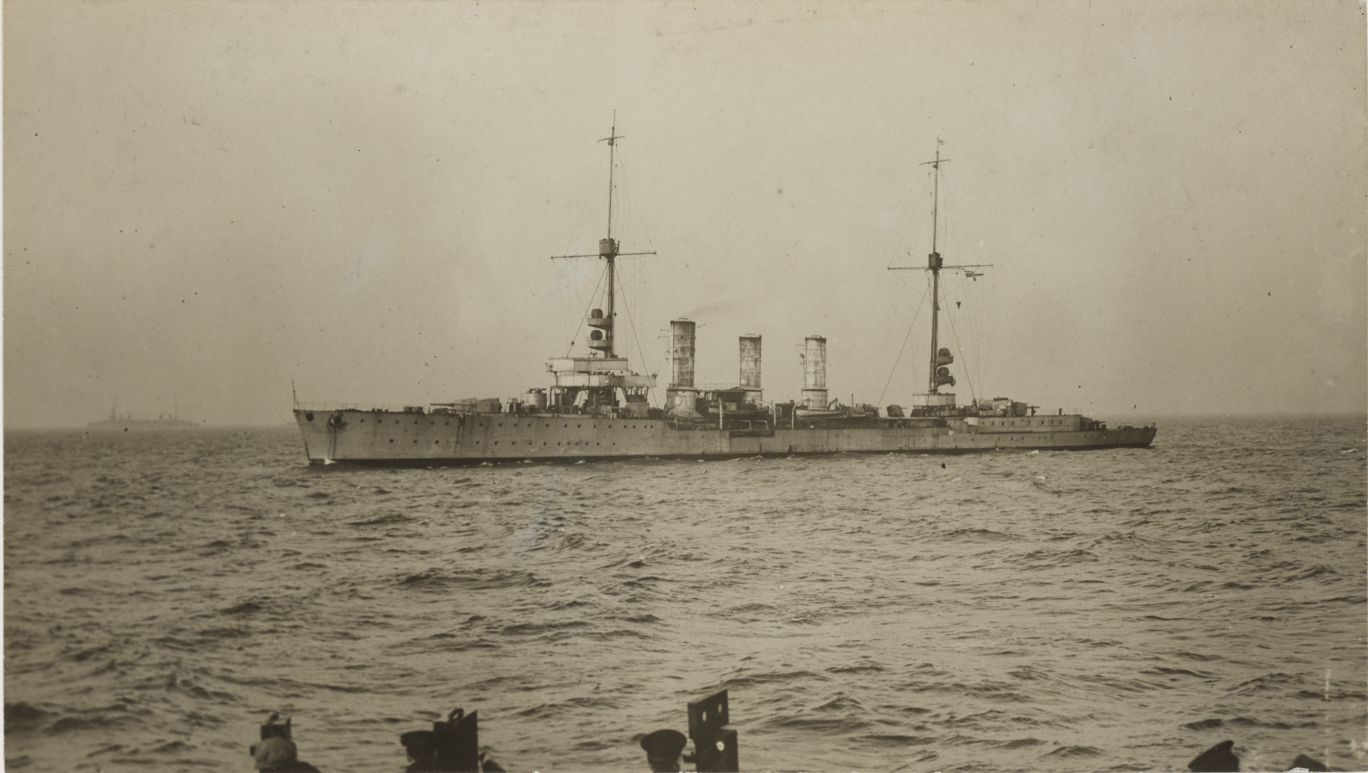 Scope and content: Photographer: Central News Photo Service